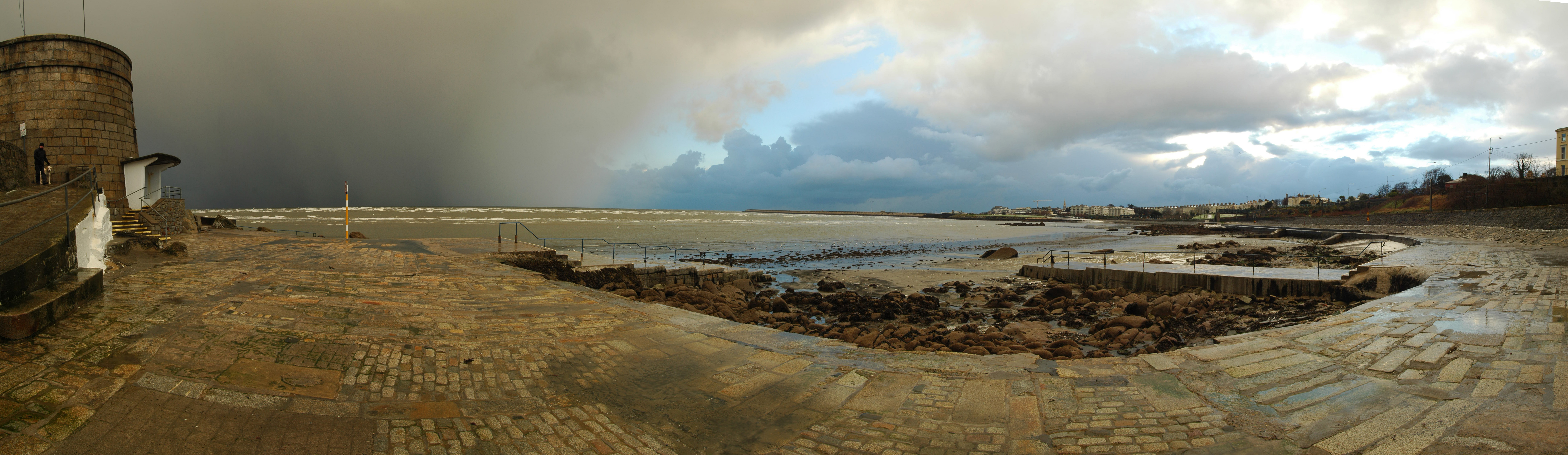 Panorama photograph of Seapoint in Monkstown, Dublin, Ireland in February 2009. Stitched from 8 individual photos.